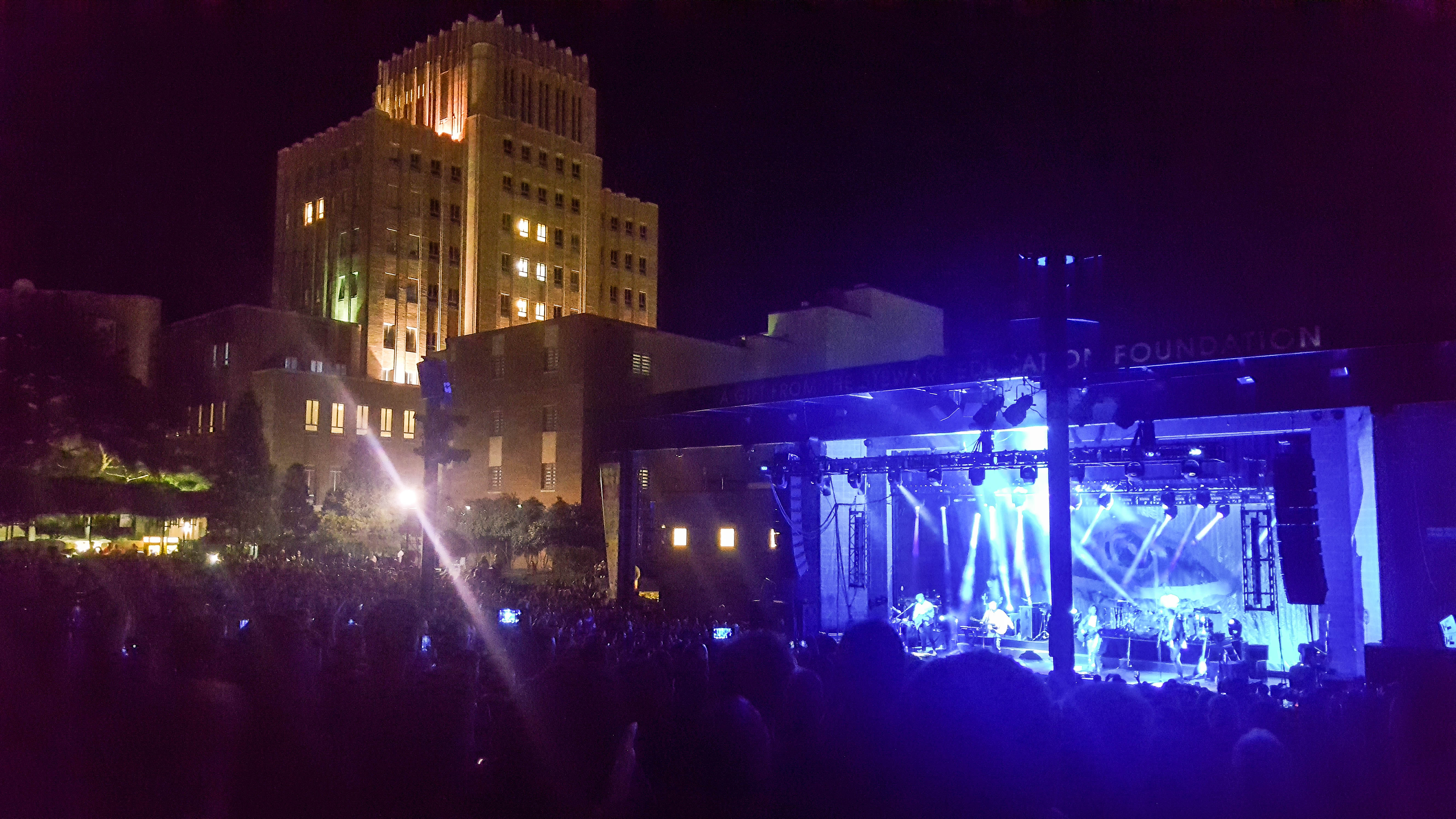 OMAM, Amphitheater, Ogden, Utah, USA